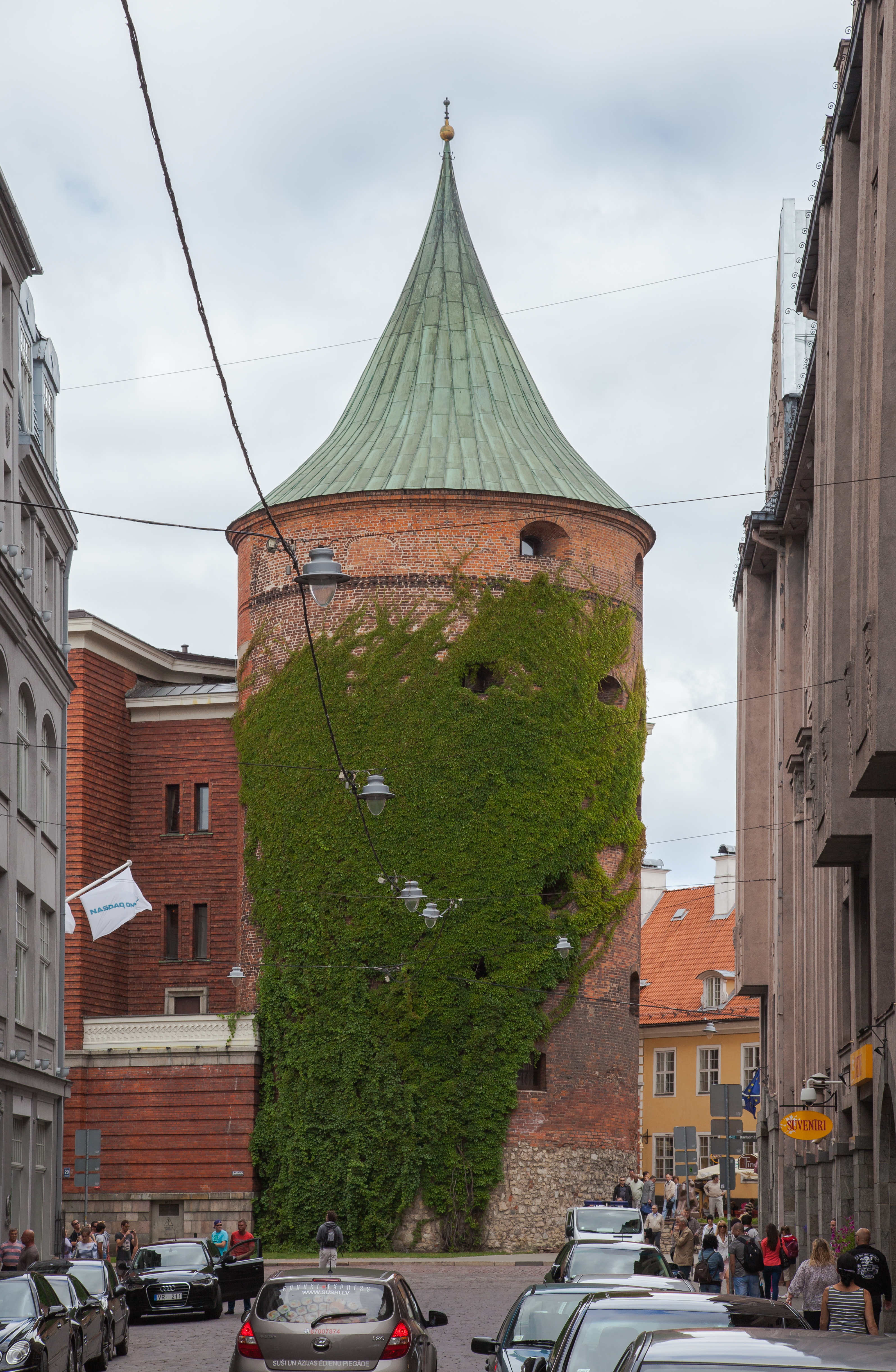 Powder Tower, Riga, Latvia